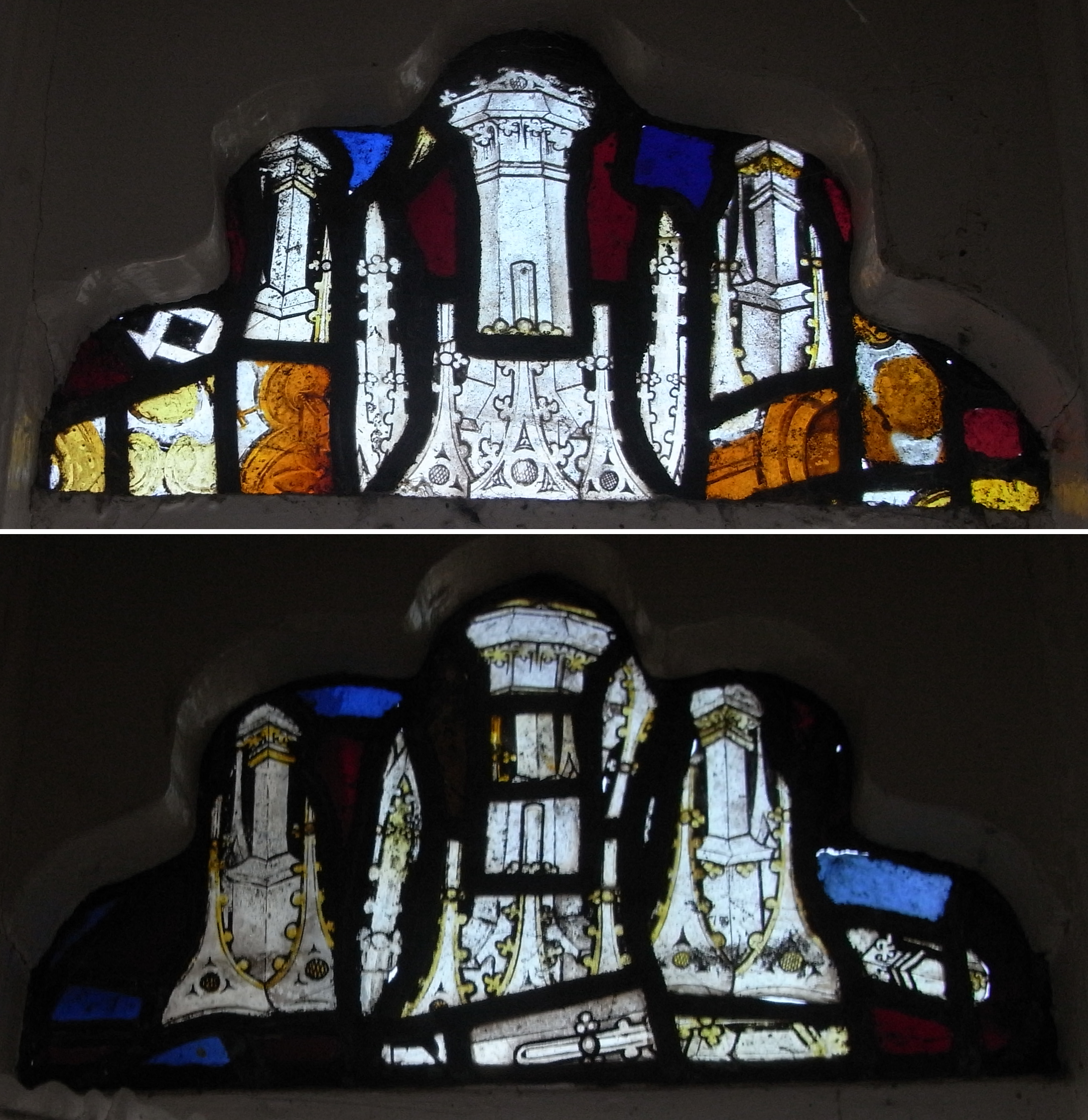 15th/16th century stained glass originally from chapel at Moore Hayes,In the stairwell window survive fragments of late 15th or early 16th century painted glass canopy work, probably from the chapel. Entrance porch of "Moorhayes Farm" in the parish of Cullompton, Devon, remnant of the ancient mansion house of the Moore family, viewed in 2017. Reset medieval arch probably taken from the chapel formerly attached to the house. (Source: Listed building text "Higher Moorhayes Farmhouse Including Front Garden Wall, Cullompton"[1]